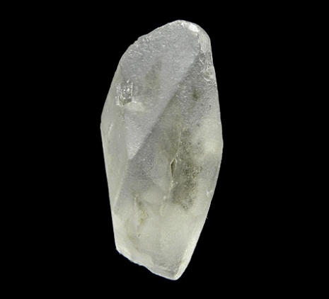 Gaylussite Locality: Lake Amboseli, Rift Valley Province, Kenya (Locality at ) Size: 3.1 x 1.5 x 1.4 cm Gaylussite is chemically a fairly simple carbonate mineral, but is not commonly found around the world. The crystals are typically grey, colorless or whitish in appearance, and can be quite gemmy from certain localities. This doubly-terminated, rather gemmy, sharp, well-formed, colorless to brownish crystal is an excellent example of the species. One of the few I have handled, and certainly one of the best single "floater" crystals I have seen. Ex. Richard Kosnar Collection.